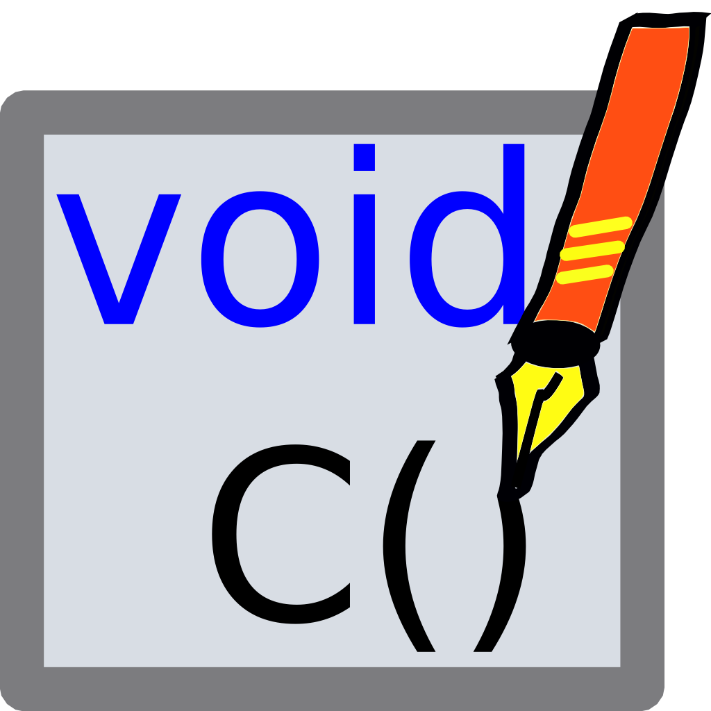 Logo of the Virtual-C IDE